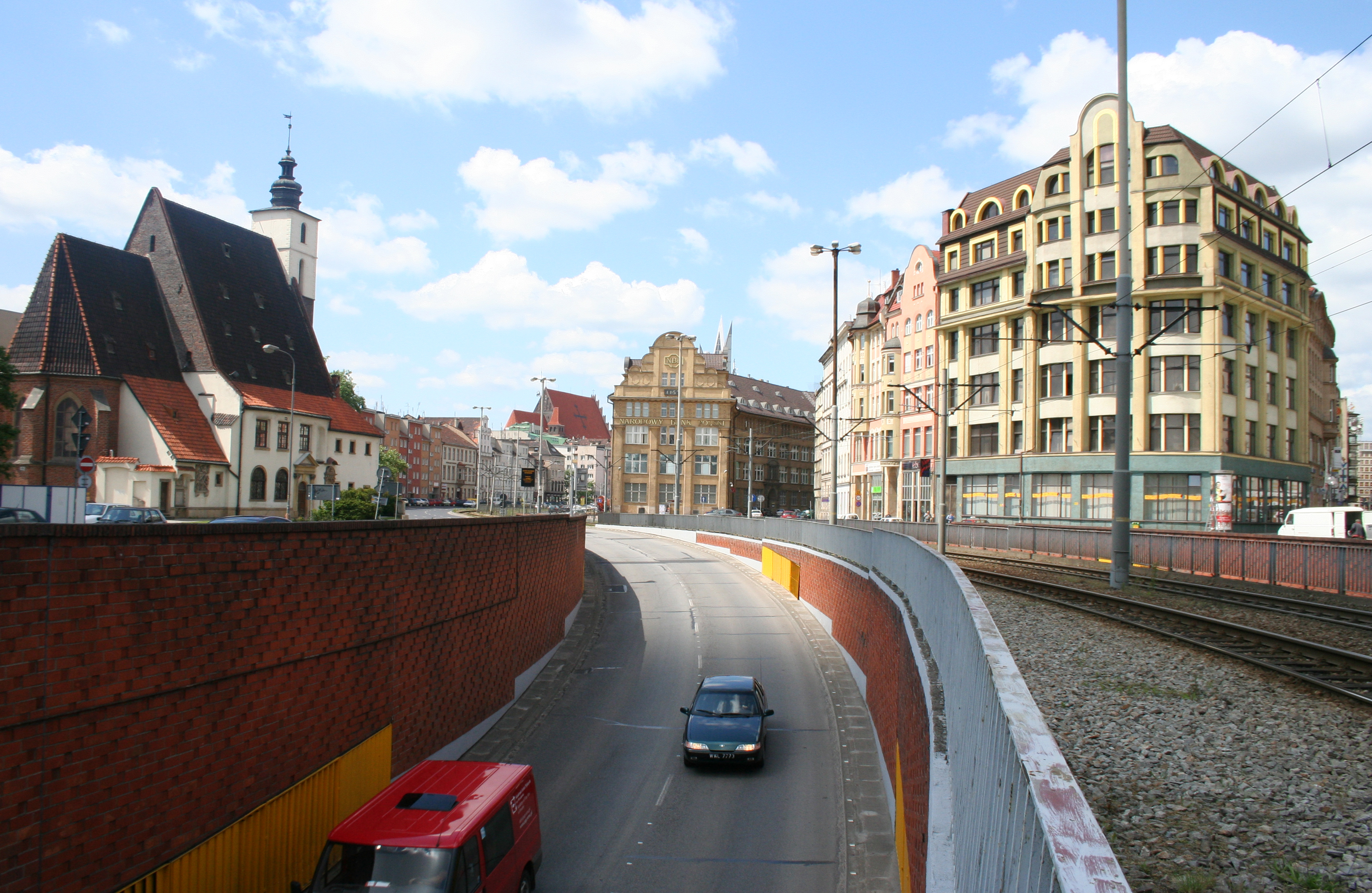 Poland, Wroclaw, road outside centre. To the left: Protestant Church, in the background: national bank "Budynek Narodowego Banku Polskiego"